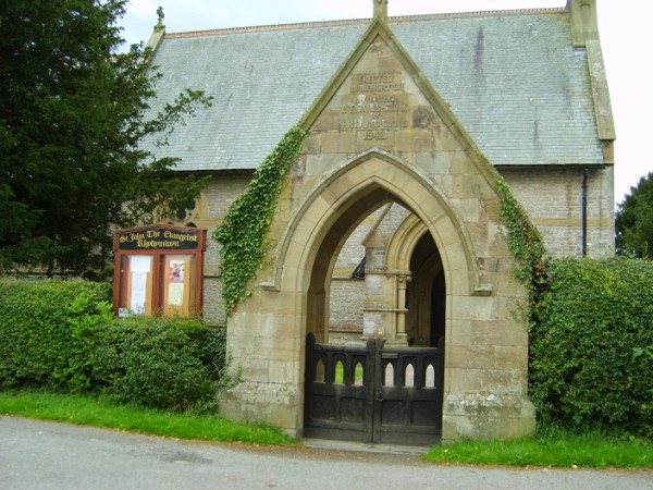 I took this photograph personally , it is a picture of Rhydymwyn Parish Church